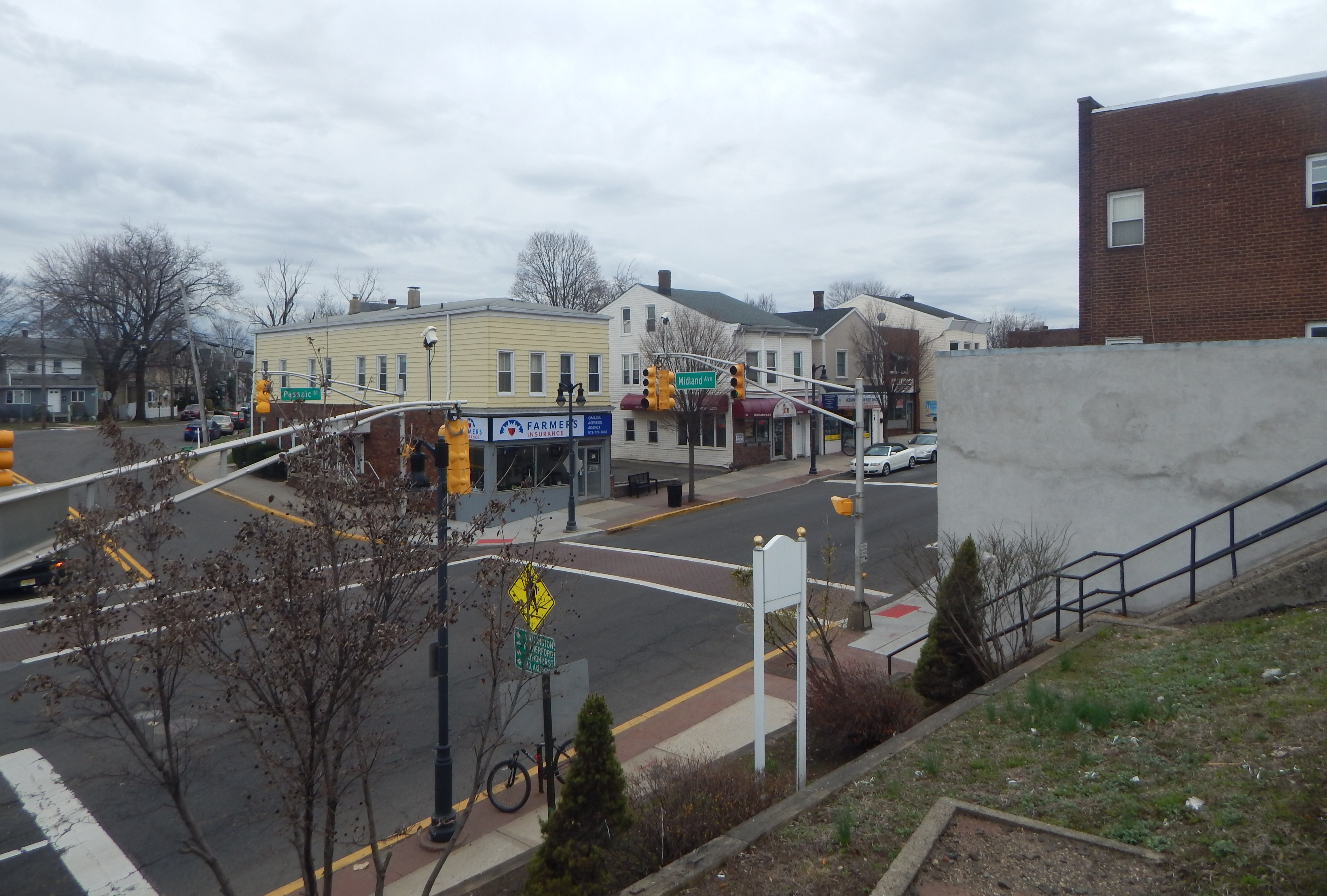 Garfield, New Jersey (2015)